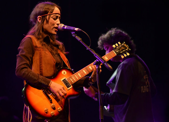 Tipriti K Bangar and Rudy Wallang at Harley Rock Riders Season III in Bangalore, India. The event was organised by Harley-Davidson India on Nov 24, 2012 at Clarks Exotica hotel in Bengaluru. (Photo by Jim Ankan Deka)